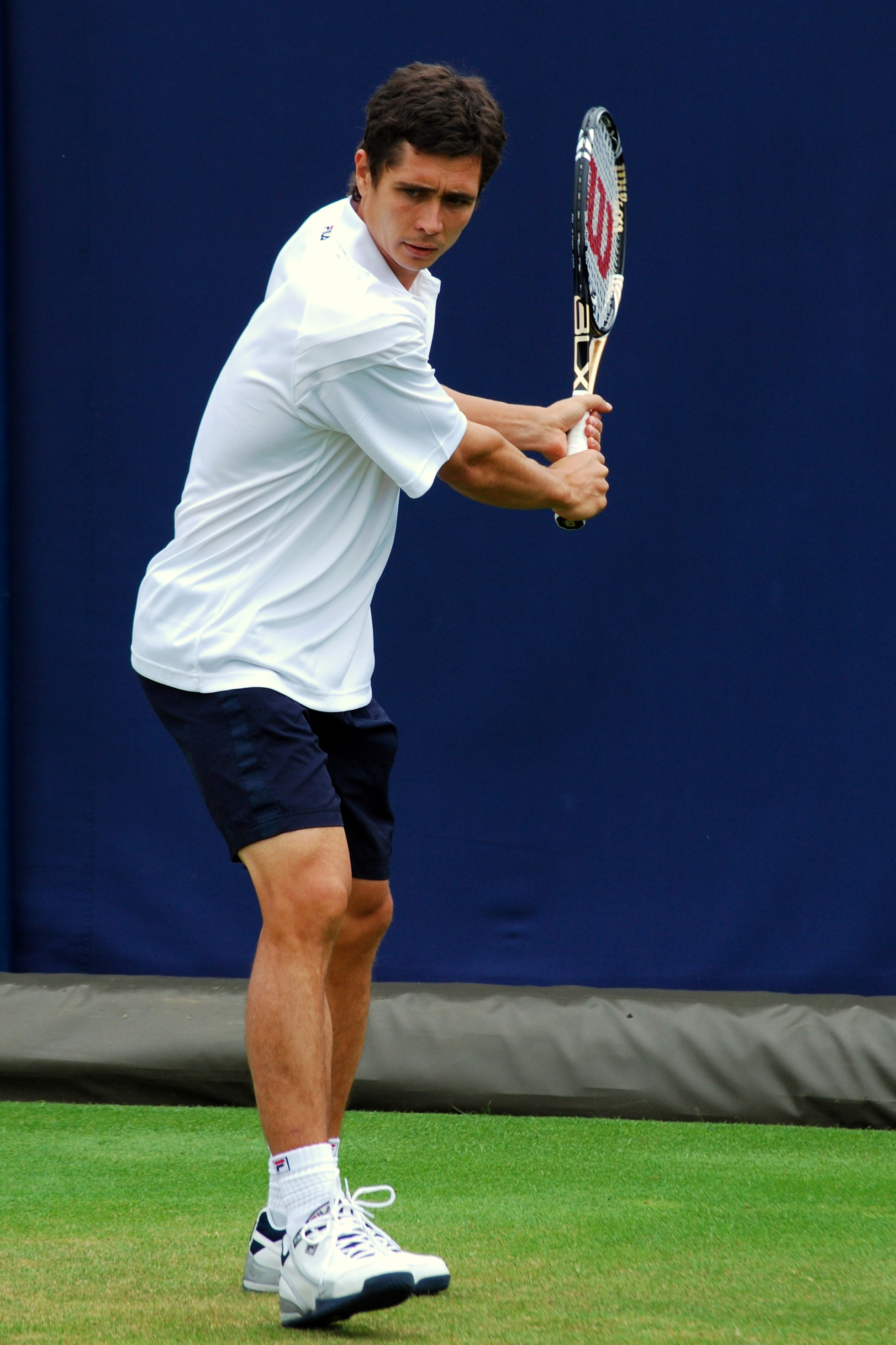 Igor Kunitsyn during a practice session. Day 1 of the Aegon Championships, Queen's Club 2011.